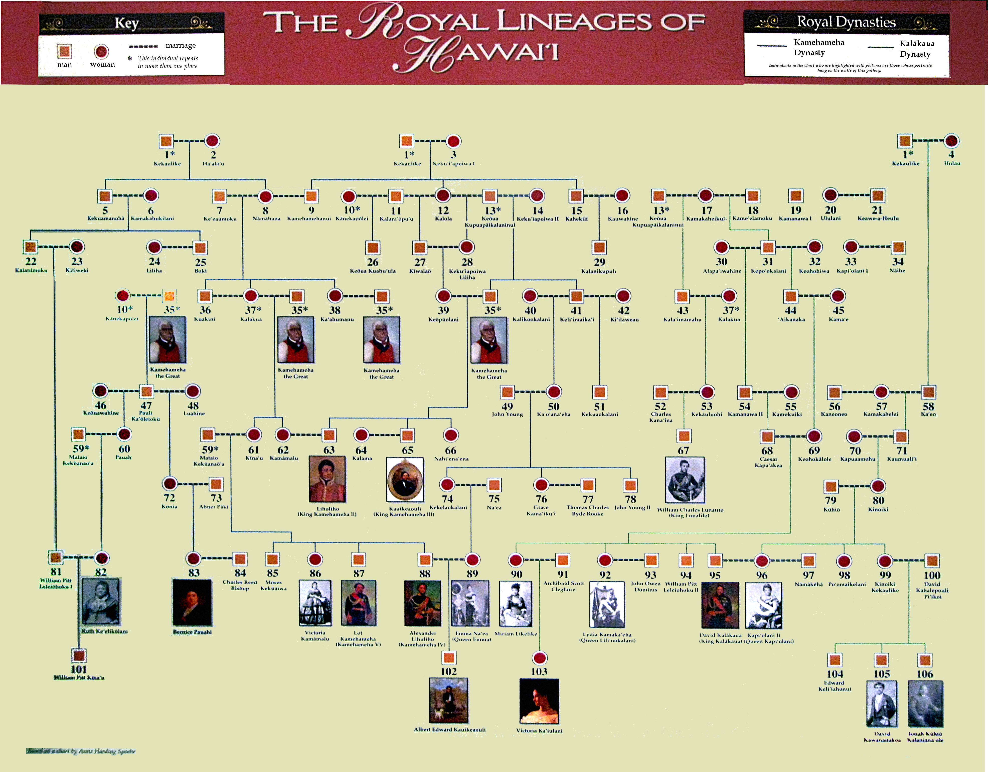 The Royal Lineages of Hawaii, Bishop Museum